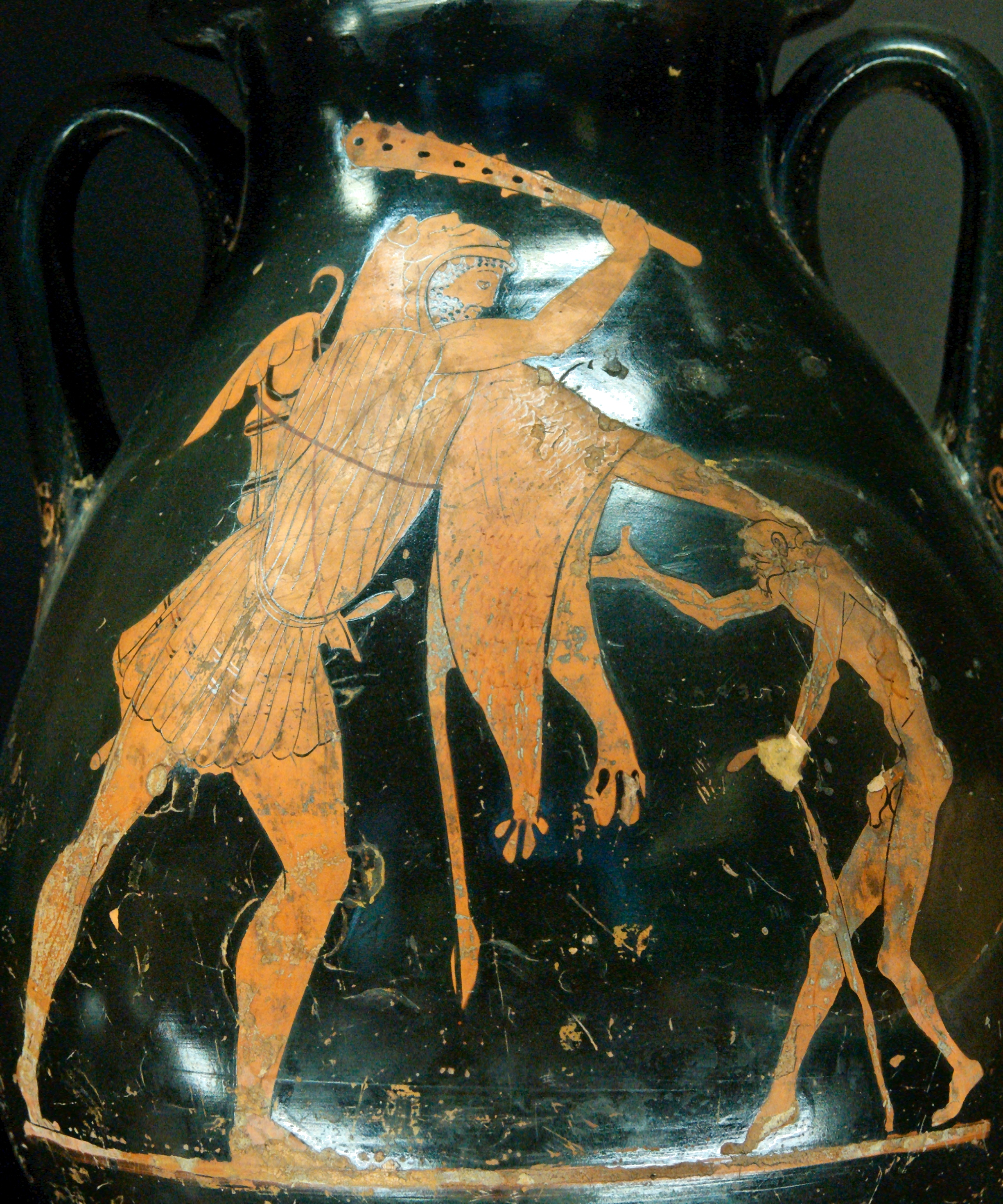 Heracles and Geras, son of Nyx and the personification of old age. Attic red-figure pelike, ca. 480–470 BC.